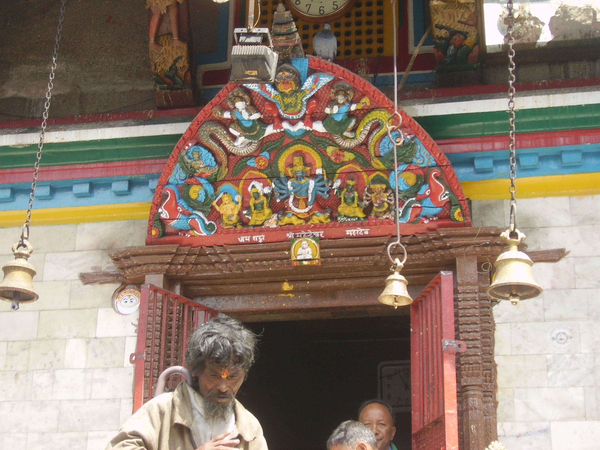 A hermit in front of the gates of the temple where the Living Goddess Kumari lives. Kathmandu, Nepal.